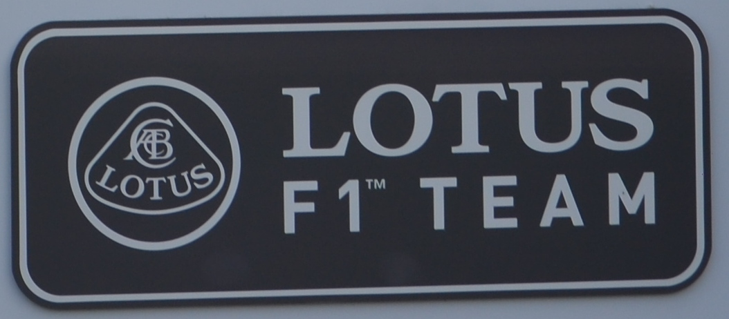 Lotus F1 Team: Factory in Enstone, Oxfordshire, UK